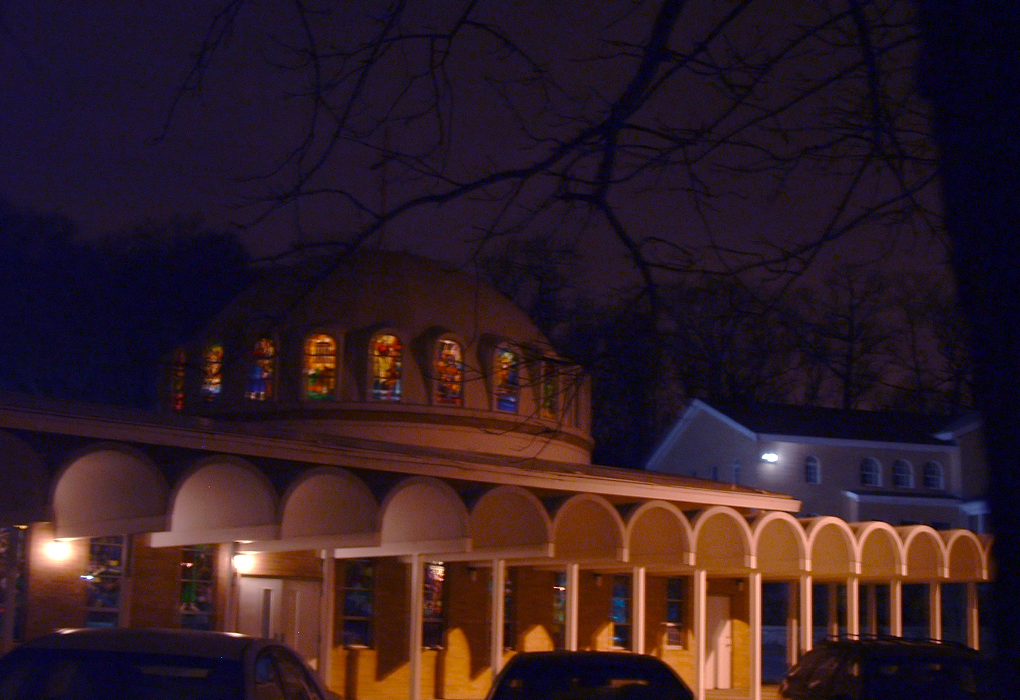 Our Lady of the Annunciation Melkite Greek-Catholic Cathedral, West Roxbury, Massachusetts, by night.